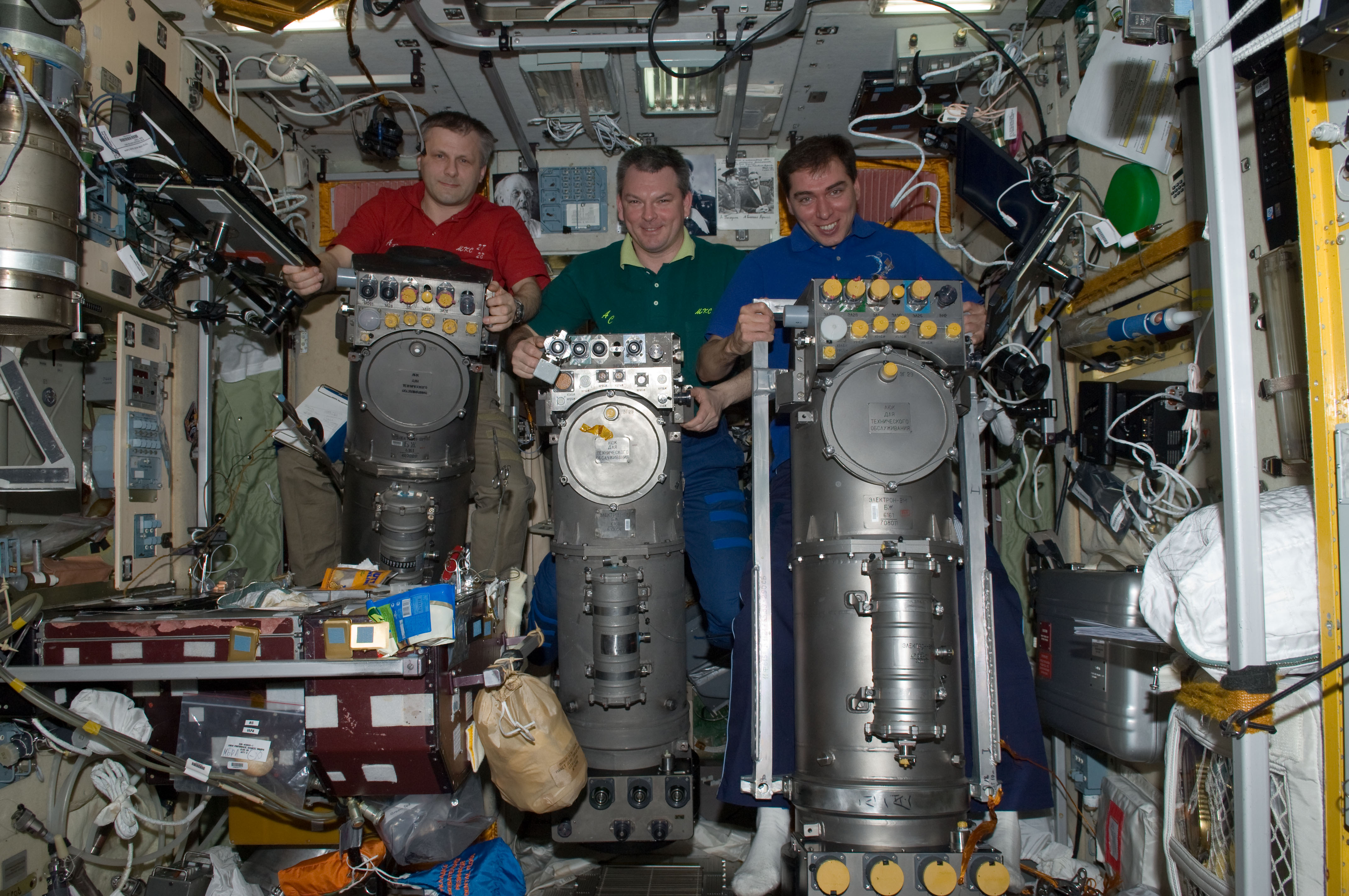 Russian cosmonauts Andrey Borisenko (left), Expedition 28 commander; Alexander Samokutyaev (center) and Sergei Volkov, both flight engineers, are pictured with Russian Elektron oxygen generator systems in the Zvezda Service Module of the International Space Station.